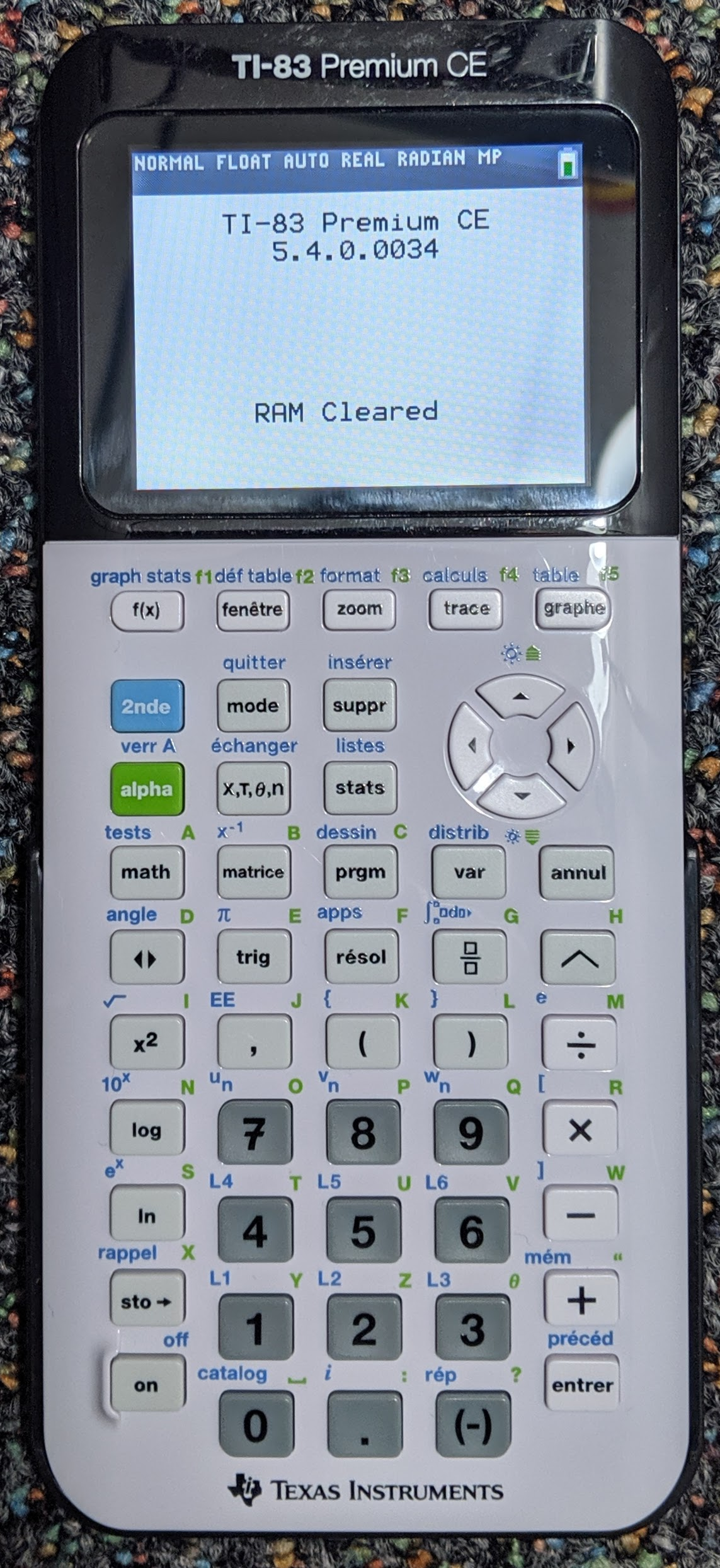 The TI-83 Premium CE.